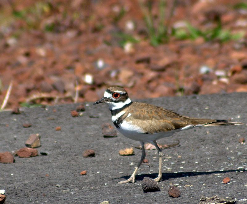 Charadrius vociferus Seattle 2006